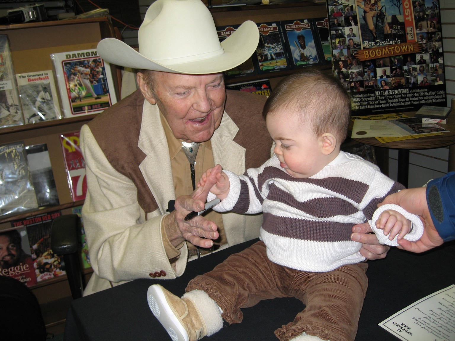 Photo taken on 12/10/06 at a public event in Worcester MA